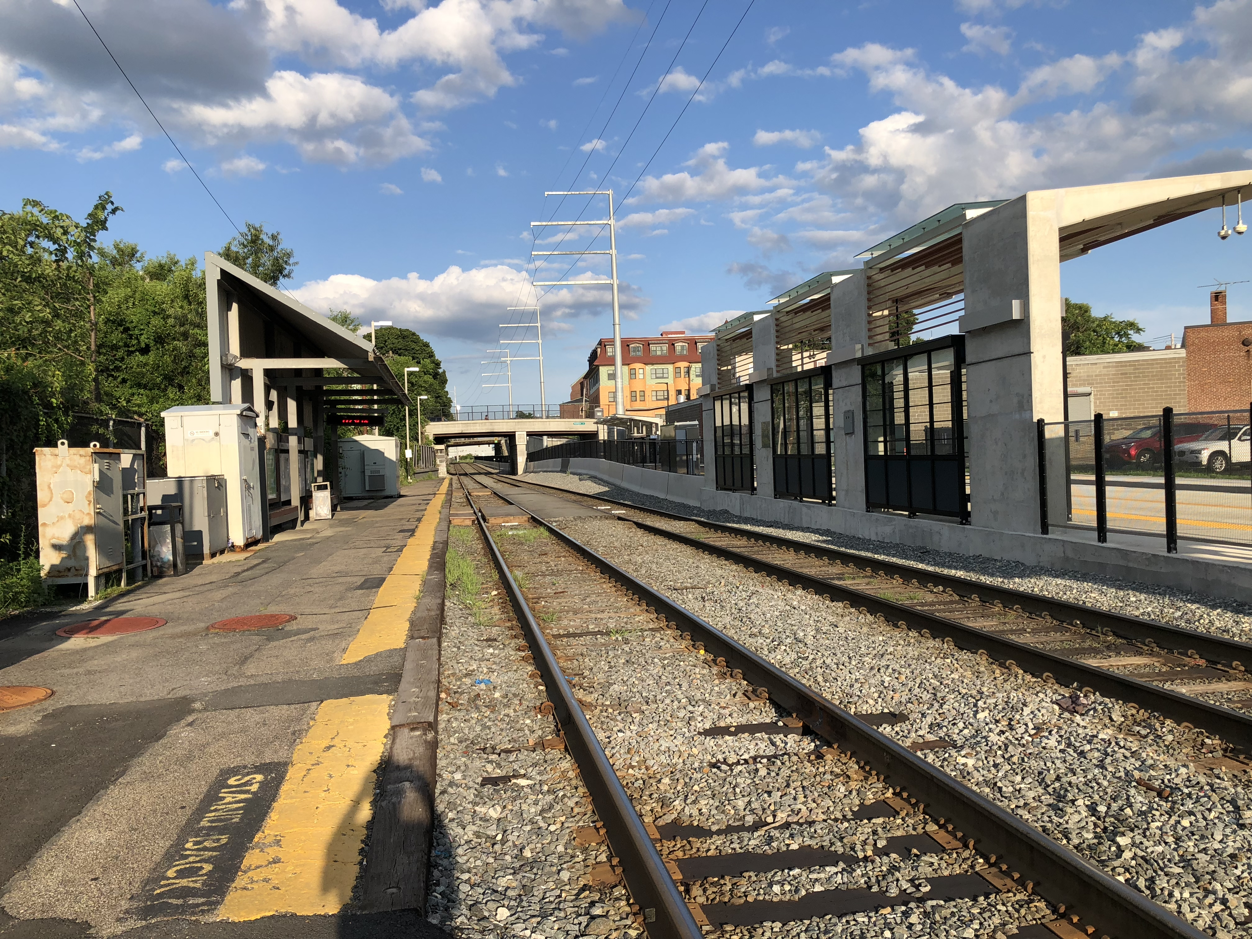 Old Chelsea commuter rail station and SL3 Bellingham Square station, MBTA SL3 line